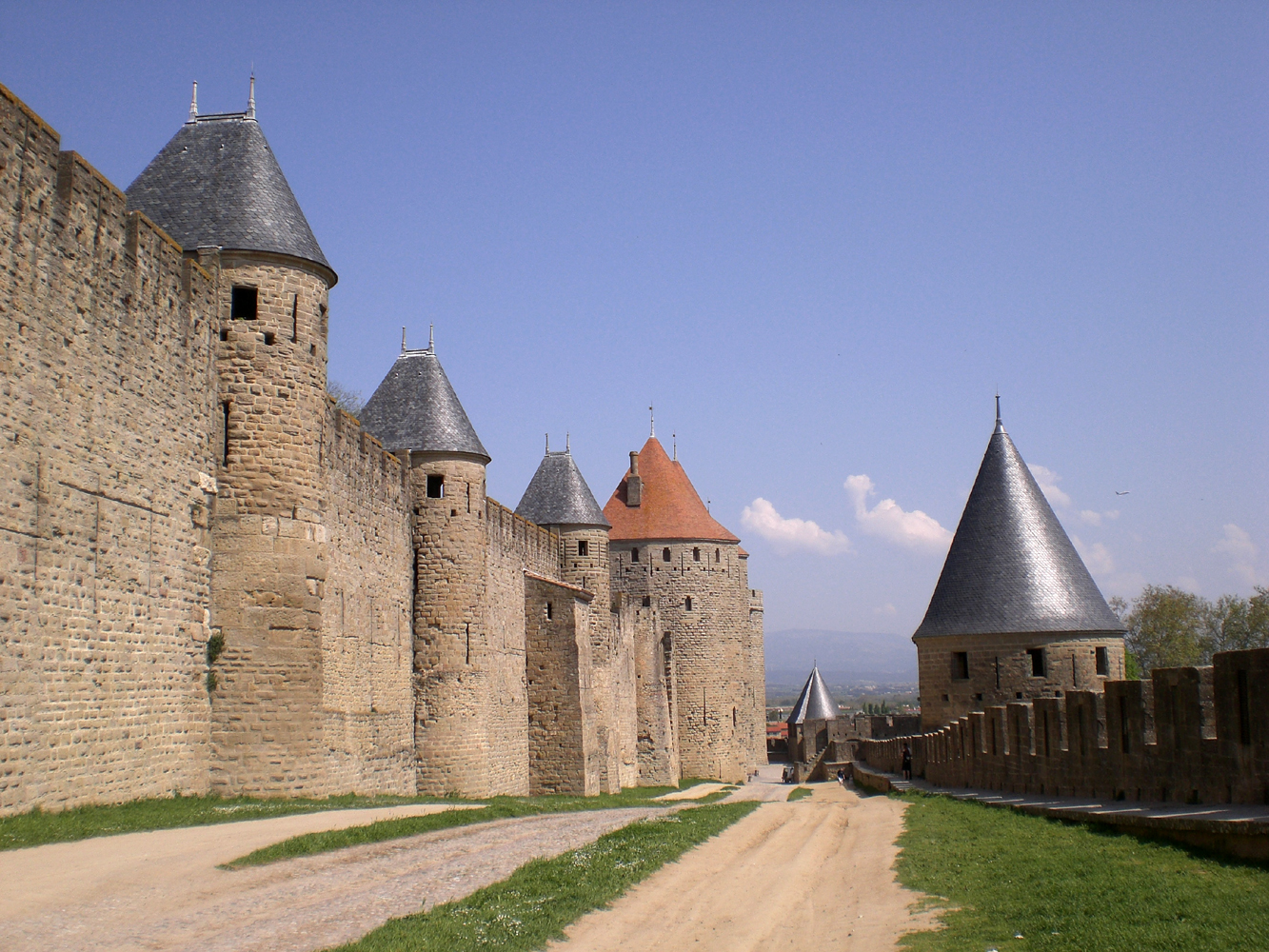 Carcassonne, city walls